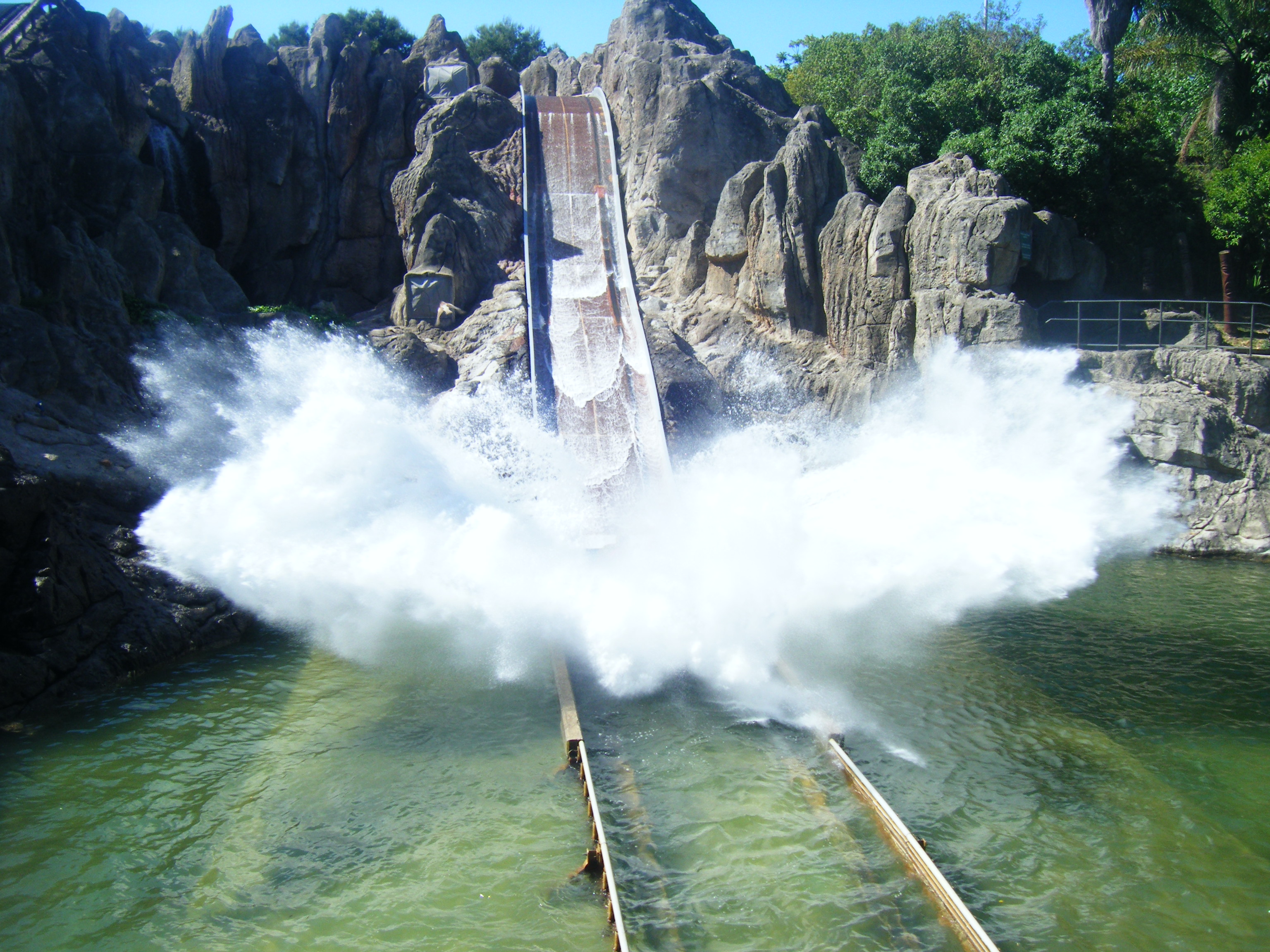 TuTuki Splash lives up to its name. Port Aventura, Salou, Spain